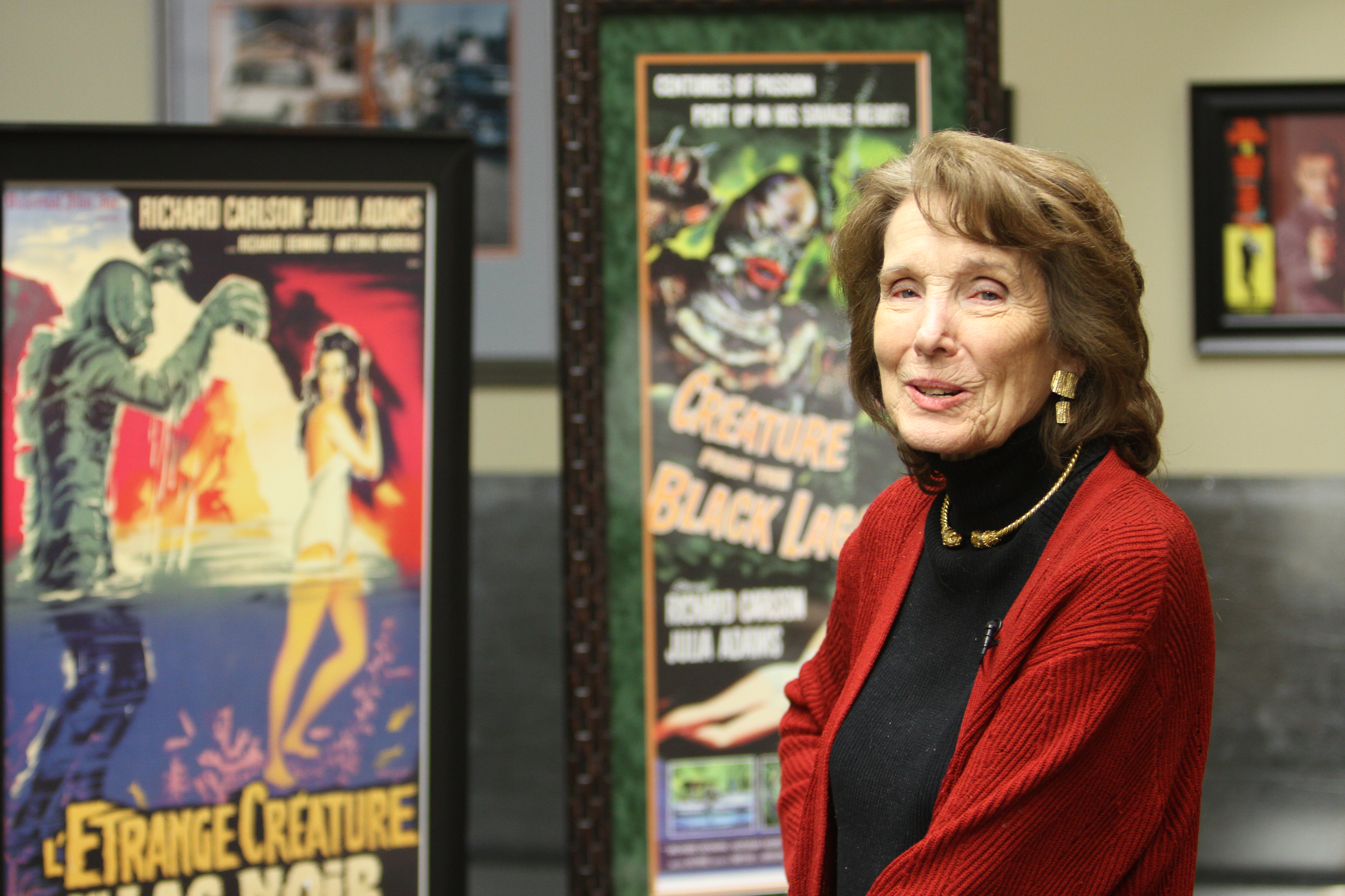 Behind the Scenes of Loyal Studios Burbank and Santa Monica, and Bob Bekian's new online station, "RealHD.tv" set to launch September 2011. Bob Bekian hosts the show "Hollywood Legends." His first interview was with the amazing Julie Adams, from Creature from the Black Lagoon. Julie Adams viewing herself portrayed on the French poster for Creature From the Black lagoon.